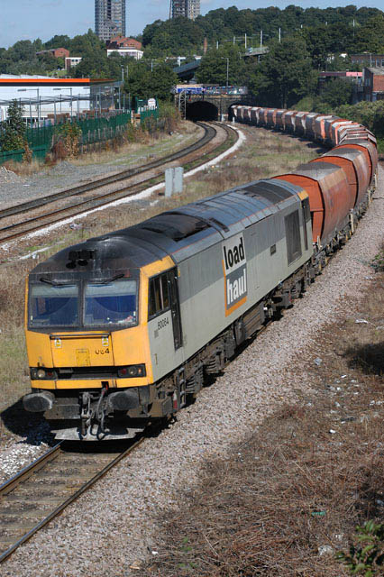 EWS Freight Train An EWS freight train heads south away from Sheffield on its way to Buxton in Derbyshire. To the left is a large B&Q warehouse and in the background are blocks of flats since torn down. To the photographer's right is a large bus depot and behind is a council depot.